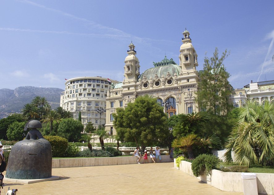 Seaside facade of the Monte Carlo Casino Theatre, designed by French architect Charles Garnier and built in 1878–79. Part of the neighboring Hôtel de Paris Monte Carlo is visible on the left, and part of the Casino itself, on the right.